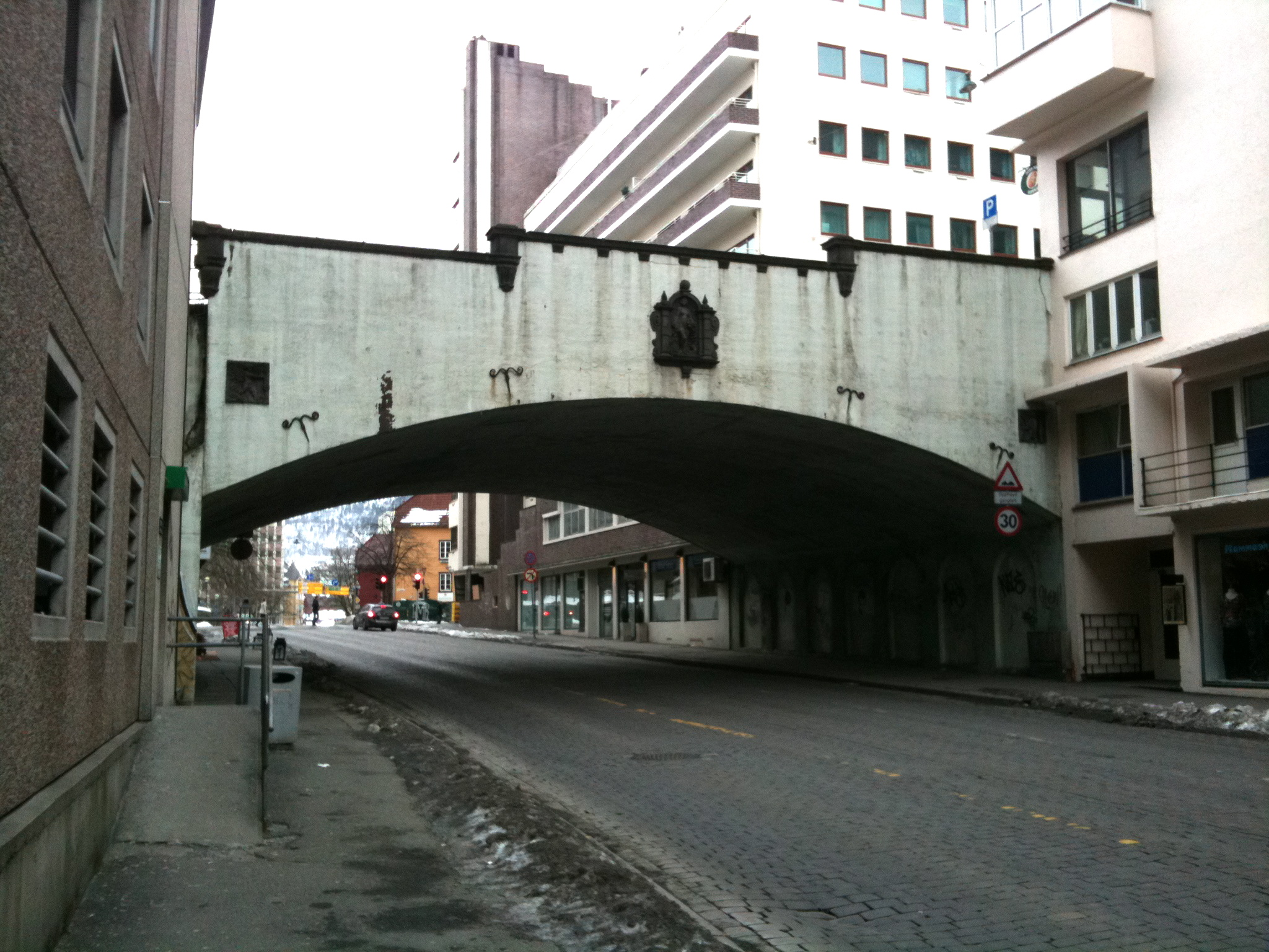 Smørsbroen a bridge in Bergen, Norway